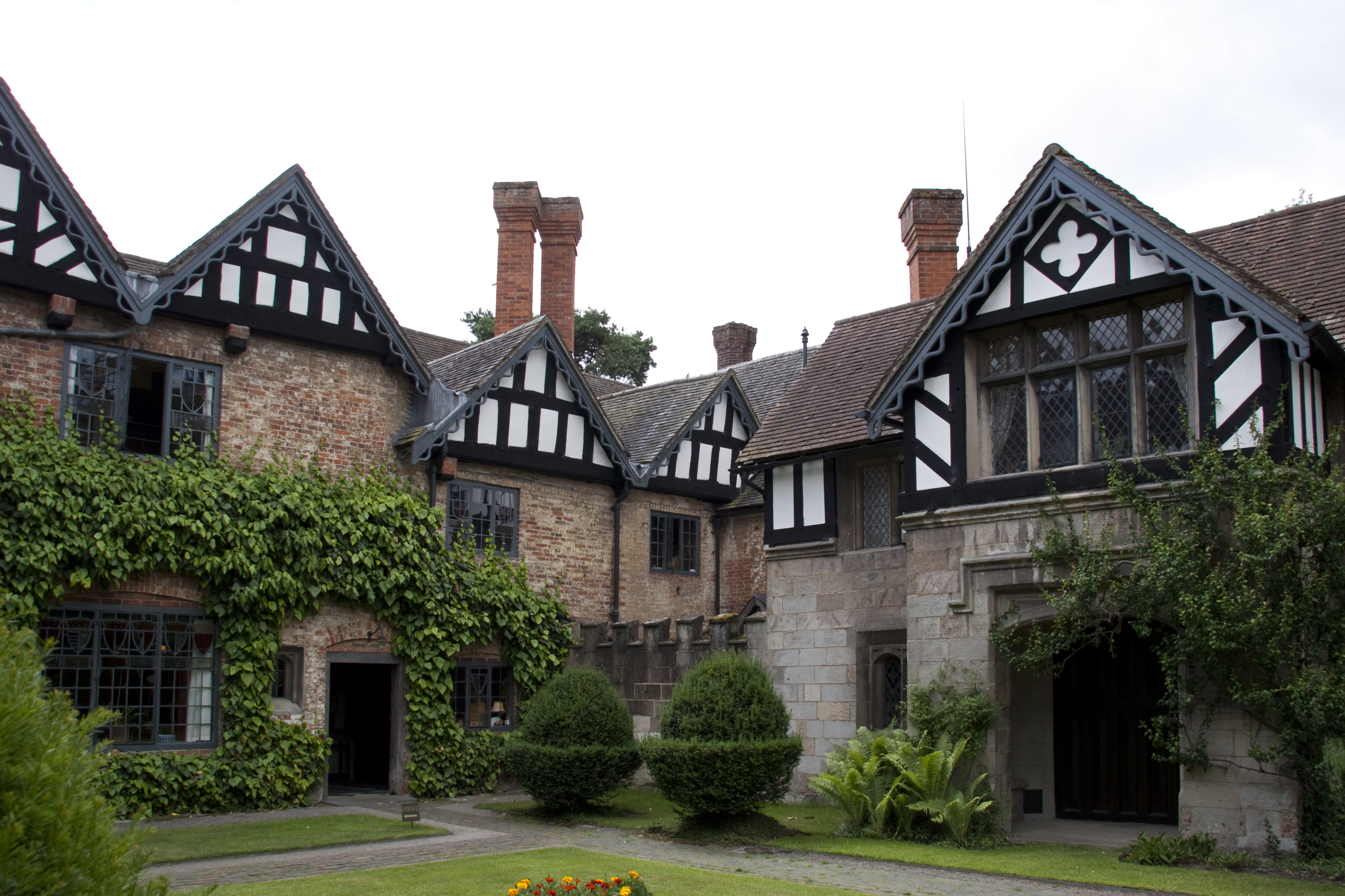 Baddesley Clinton 6